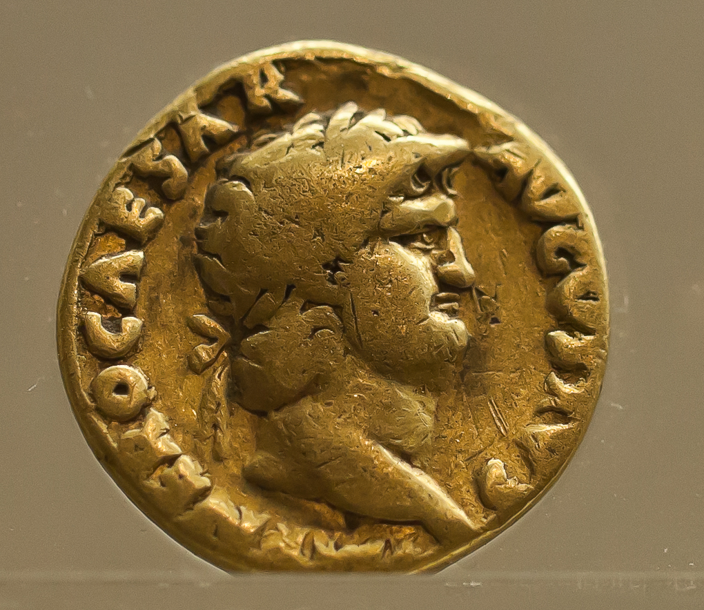 Nero Coin. Roman Galicia, Spain